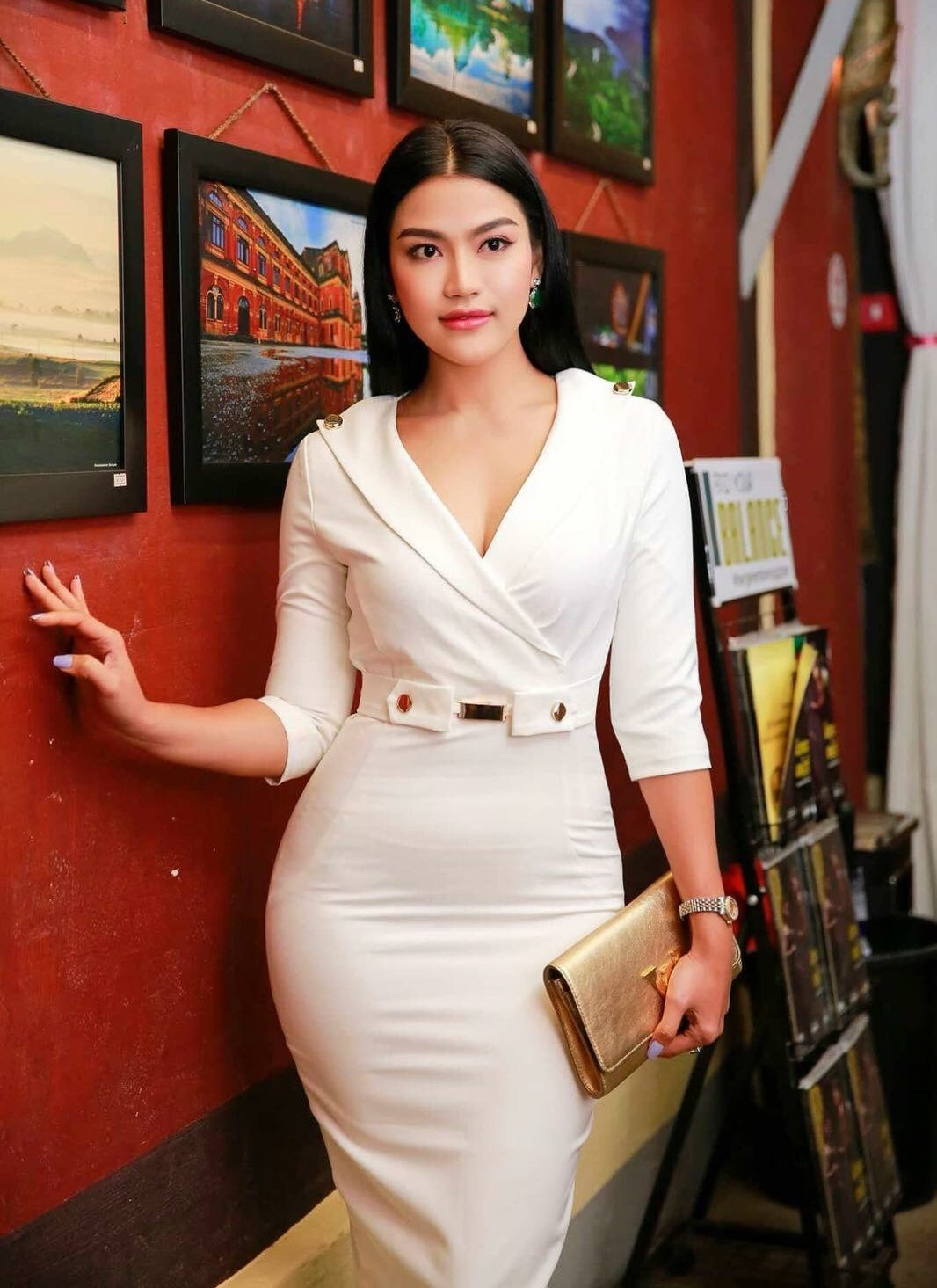 Ei Chaw Po at Art House Gallery